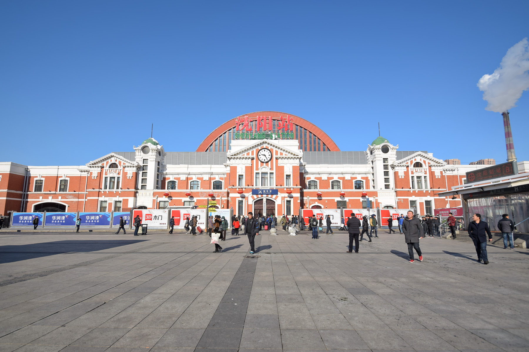 East Square (old station building) of Shenyang Railway Station